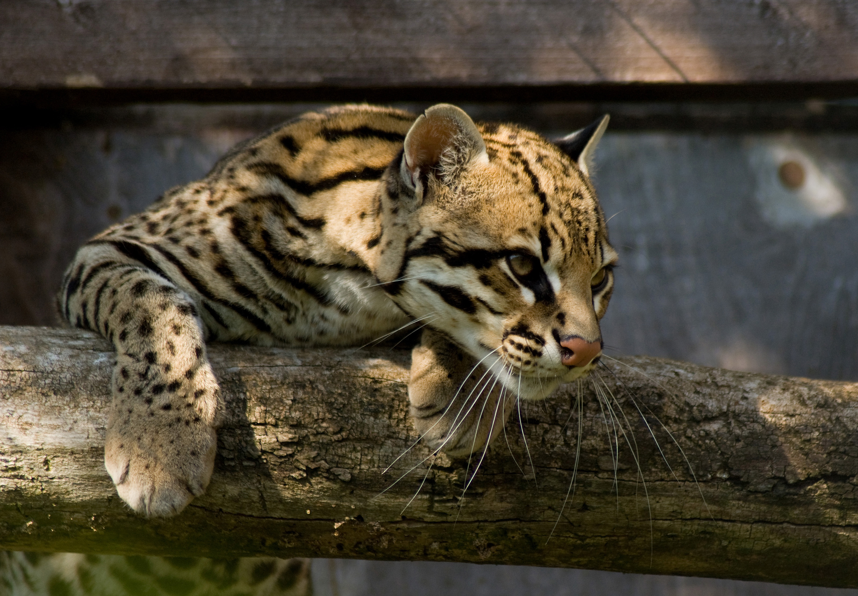 A ocelot (Leopardus pardalis) in a British Zoo.